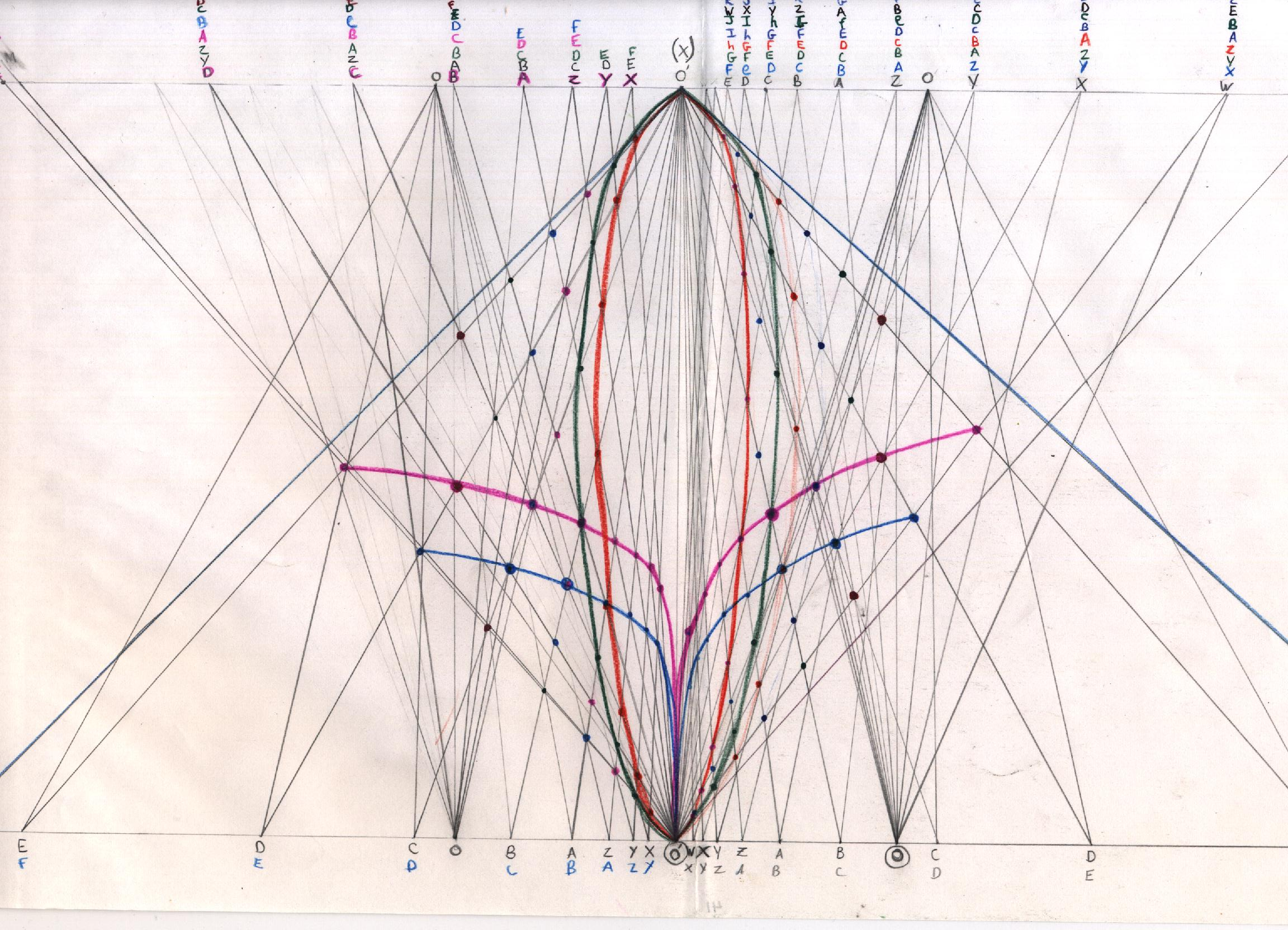 Projective geometry block in a Waldorf high school